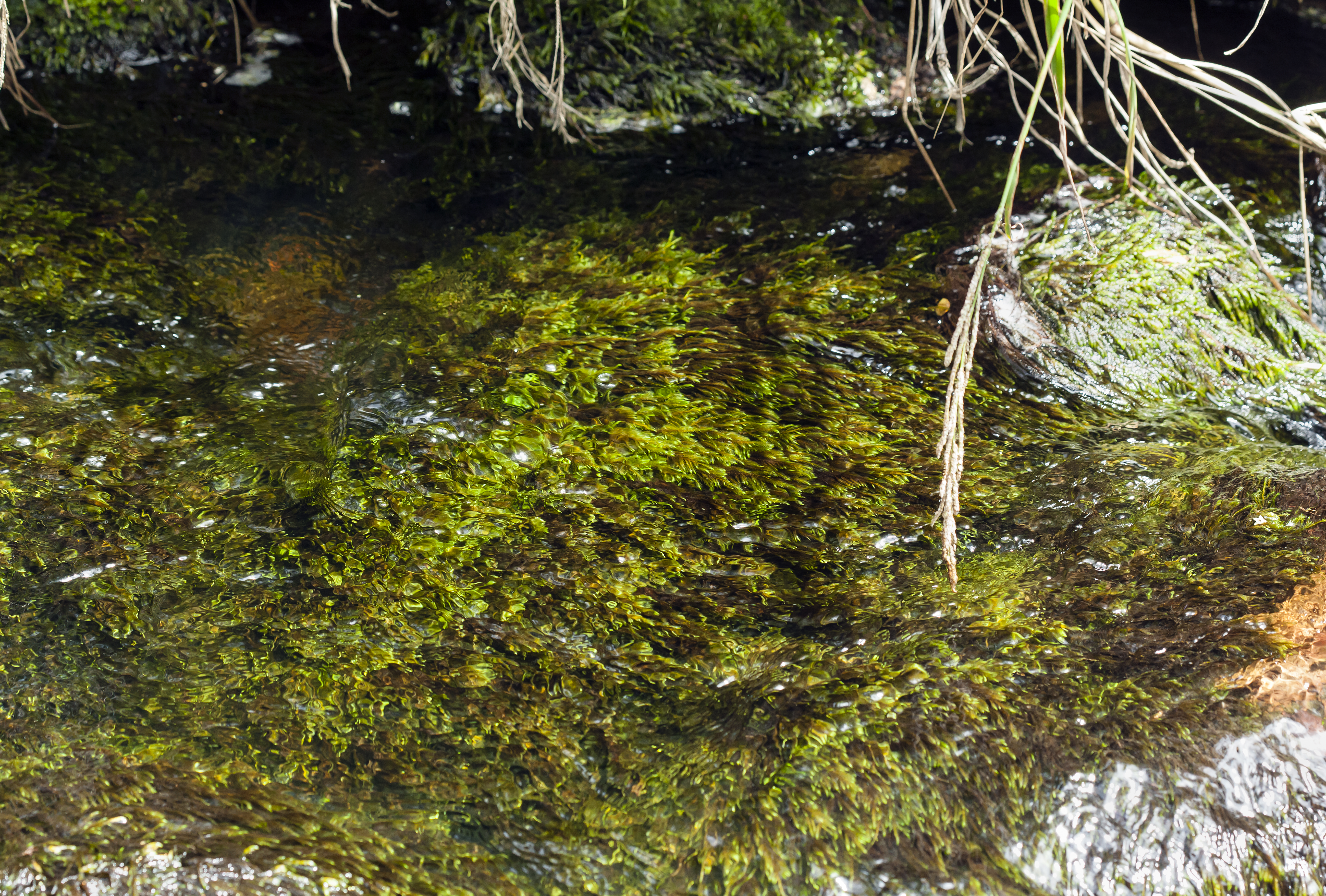 Limbella tricostata. This is a distinctive aquatic moss endemic to the Hawaiian Islands, seen here under the ripples of a shallow stream in a forest opening in the Alakai district of Kauai.